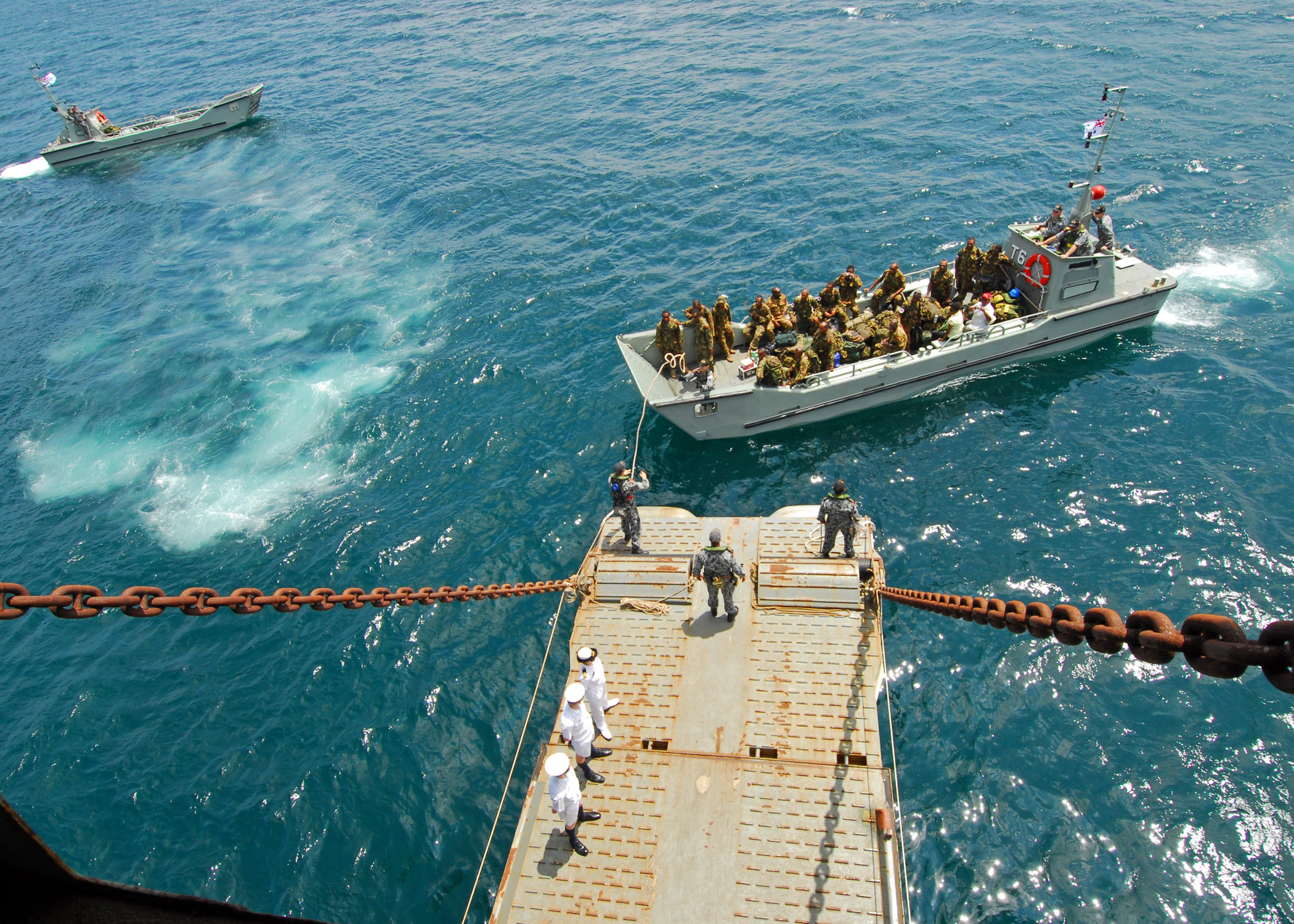 PORT MORESBY, Papua New Guinea (Aug. 31, 2010) Members of the Papua New Guinea Defense Force prepare to embark aboard the Royal Australian Navy landing ship heavy HMAS Tobruk (L50). Tobruk is en route to Rabaul, Papua New Guinea, with an embarked contingent of 64 Sailors and non-governmental organization members from the Military Sealift Command hospital ship USNS Mercy (T-AH 19) for the final leg of Pacific Partnership 2010. Pacific Partnership is the fifth in a series of annual U.S. Pacific Fleet humanitarian and civic assistance endeavors to strengthen regional partnerships. (U.S. Navy photo by Mass Communication Specialist 2nd Class Eddie Harrison/Released)